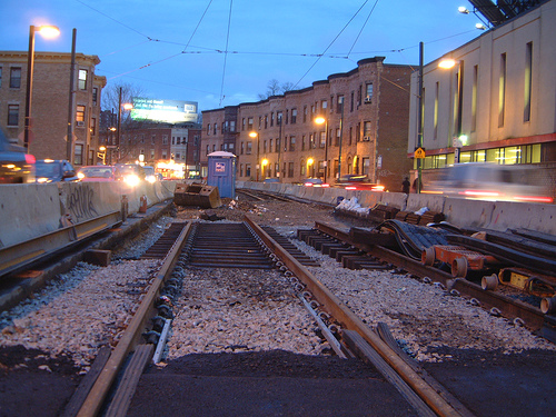 The reconstruction project on the MBTA Green Line "E" Branch in 2006. This view is from Huntington Avenue at Frawley Street and looks east (inbound).